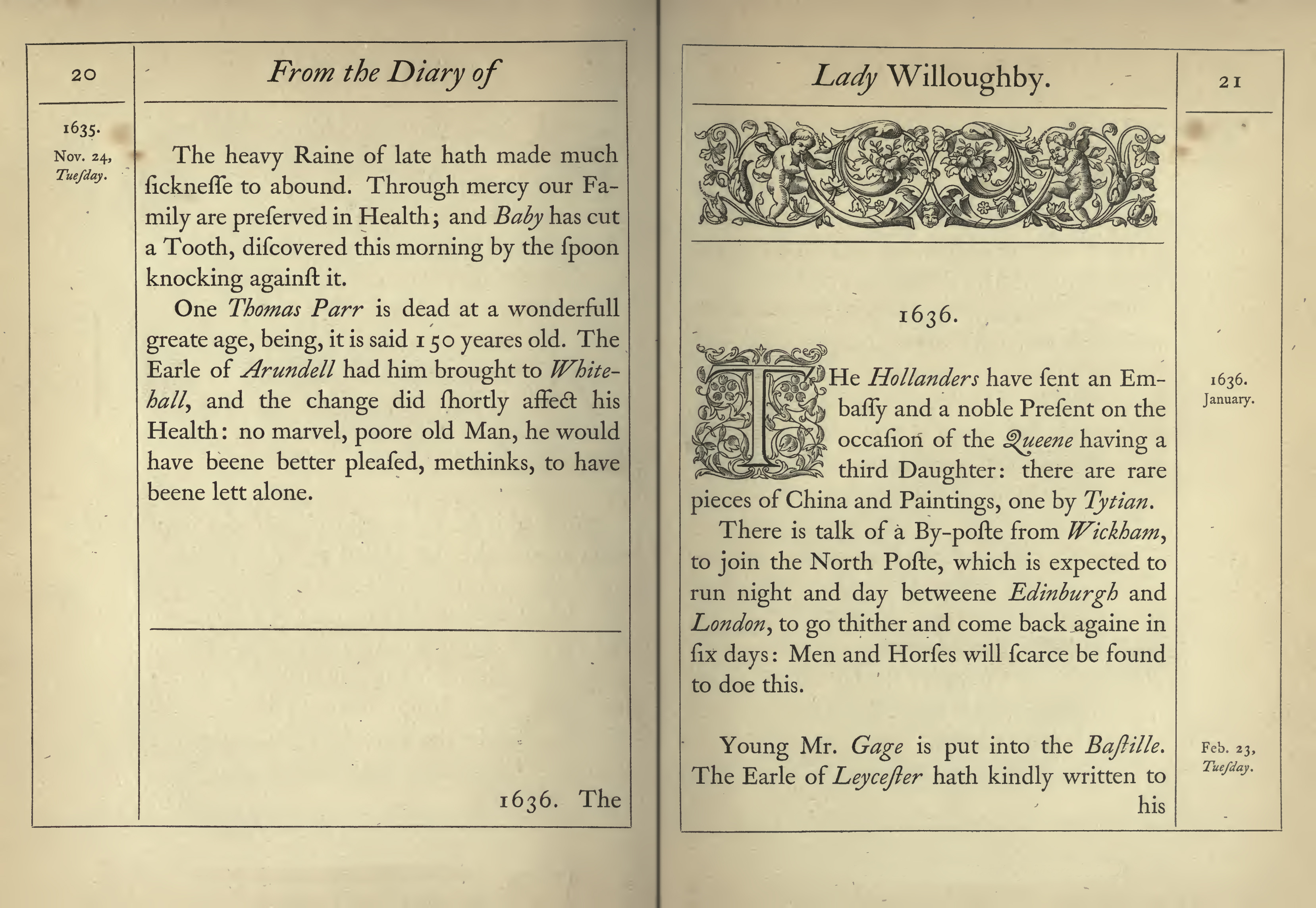 Page-spread from "Diary of Lady Willoughby" printed by Chiswick Press in 1844.